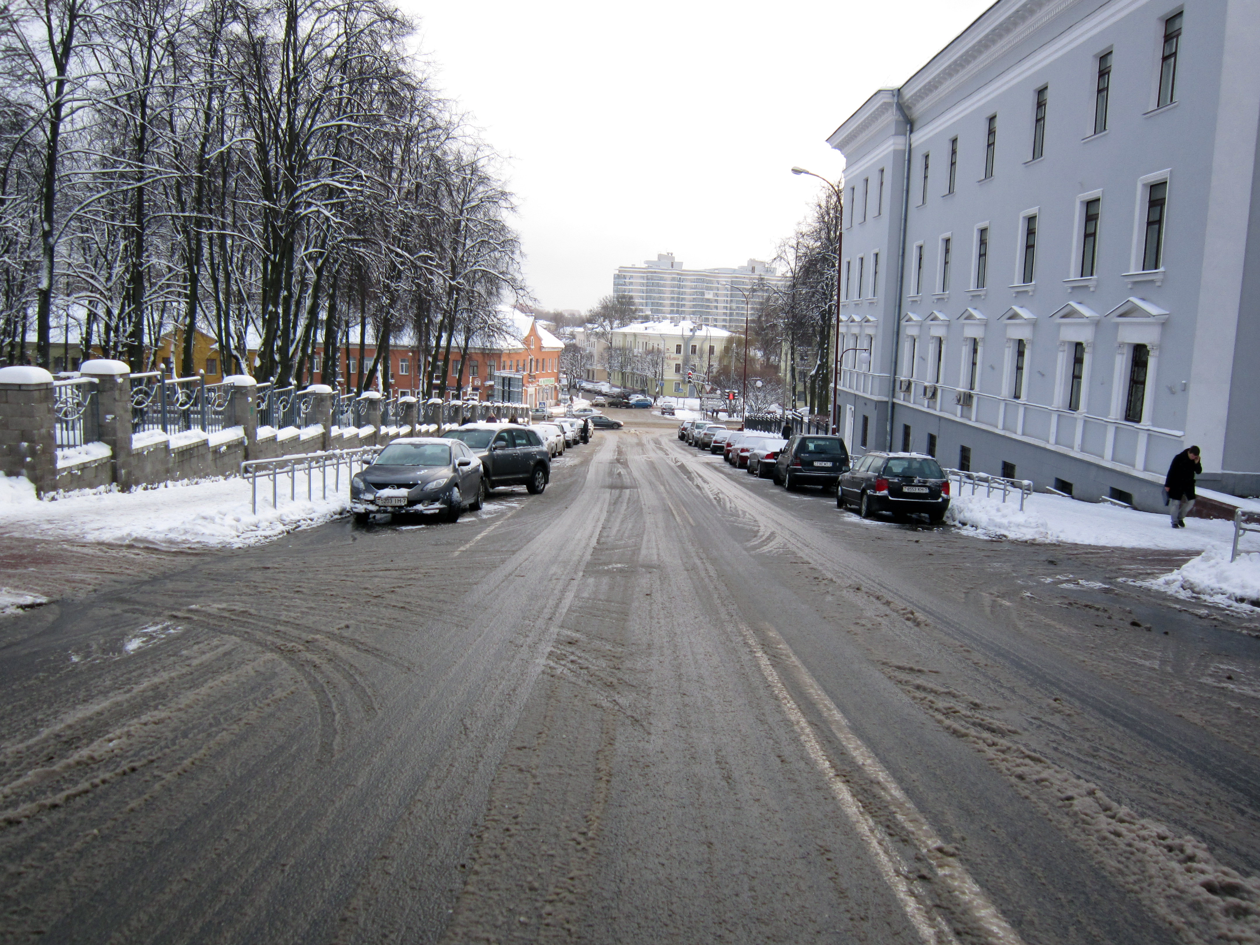 Red Army (Chyrvonaarmeyskaya) street in Minsk.